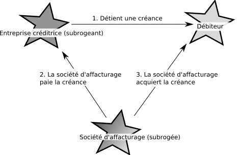 drawing explaining "affacturage" (factoring in finance). I tried to upload it in SVG, but the automatic PNG conversion does not work very well (see Affacturage.svg).